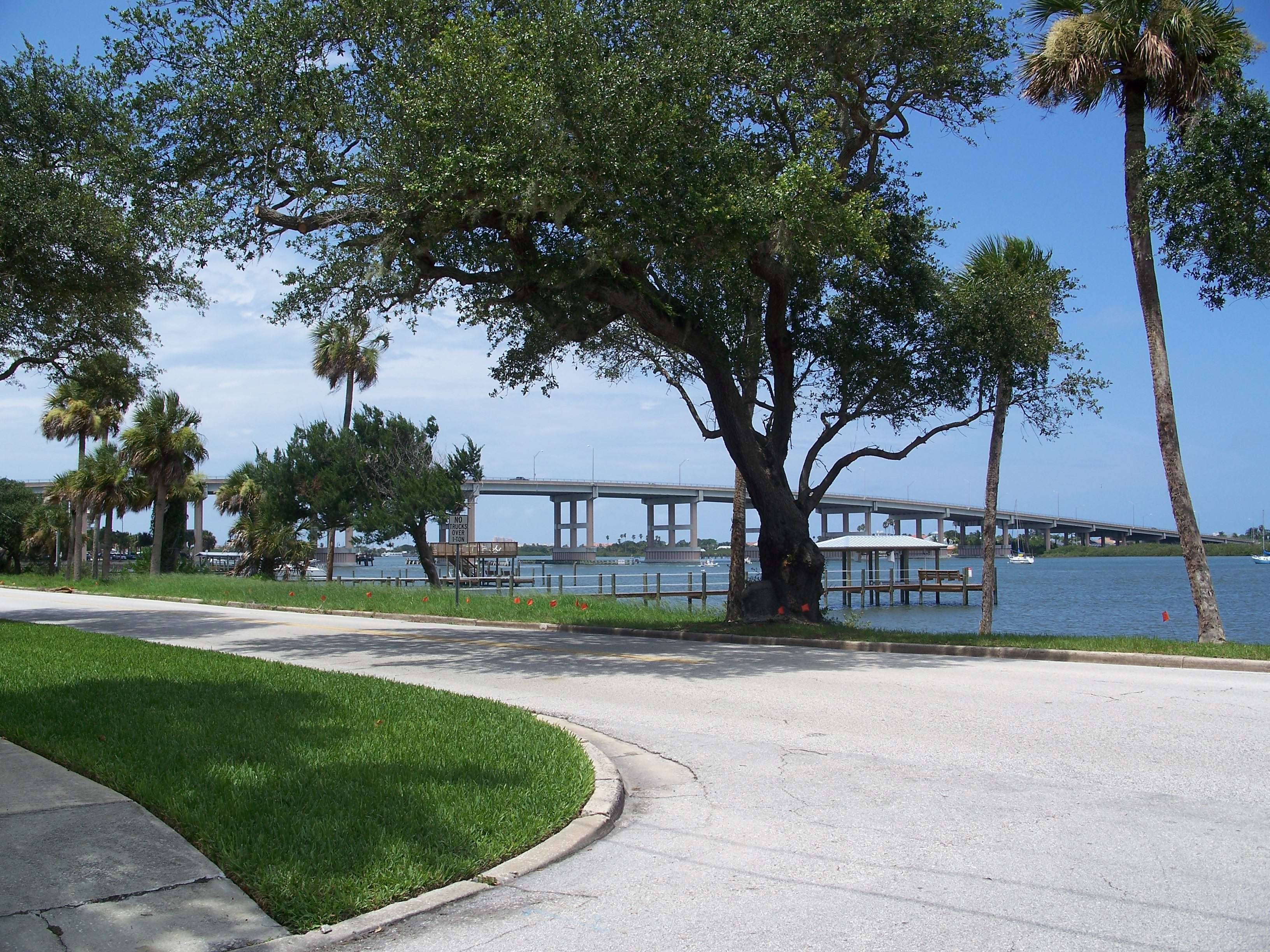 A1A South Causeway, in New Smyrna Beach, Florida